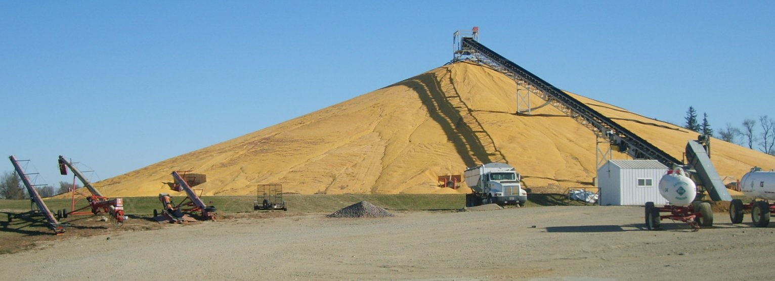 Corn from 2017 harvest piled on the ground in northwest Iowa. This pile contains about 2.2 million bushels (55,000 tonnes).